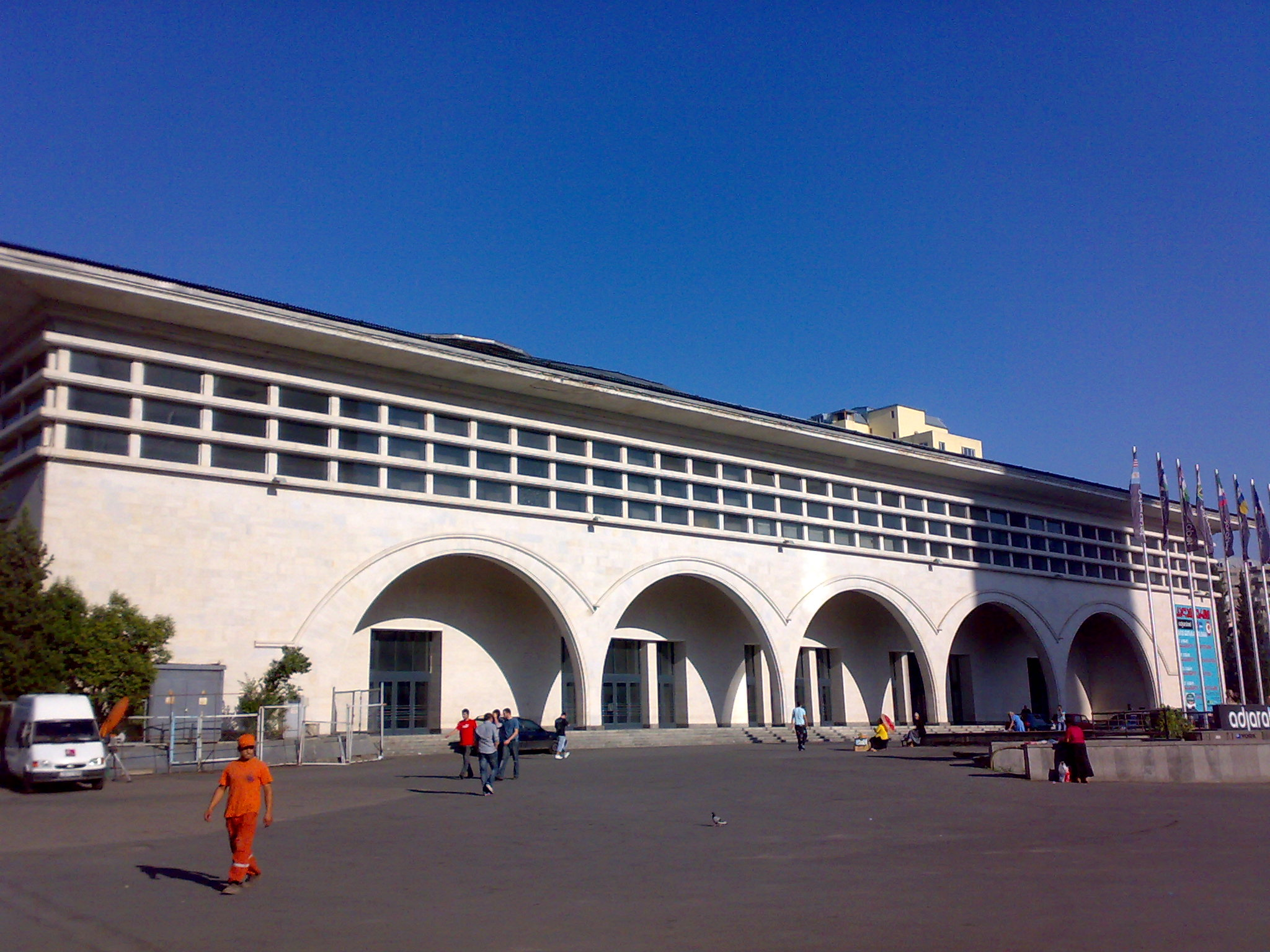 Tbilisi Sports Palace